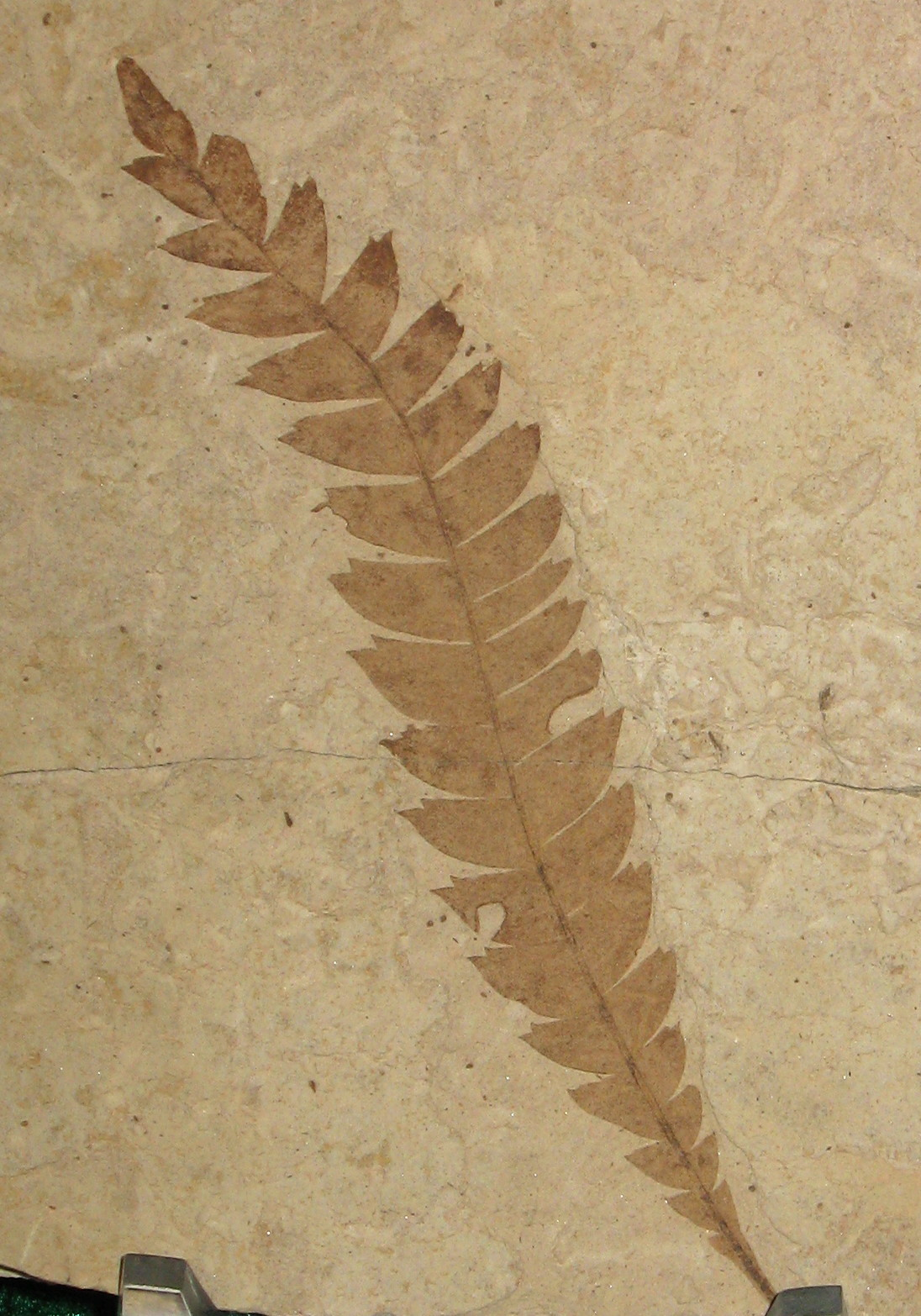 A fossil leaf from the extinct Comptonia columbiana. 48.5 million years old. Klondike Mountain Formation, Republic, Ferry County, Washington, USA. Stonerose Interpretive Center # SR 05-09-01